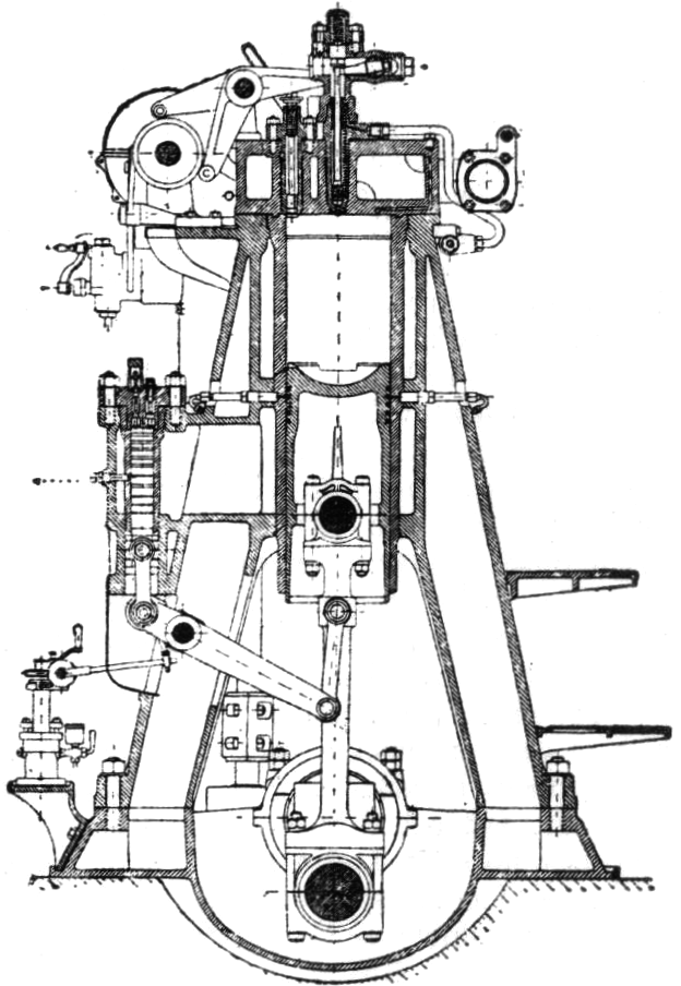 Cross-section of a diesel engine of the swedish type